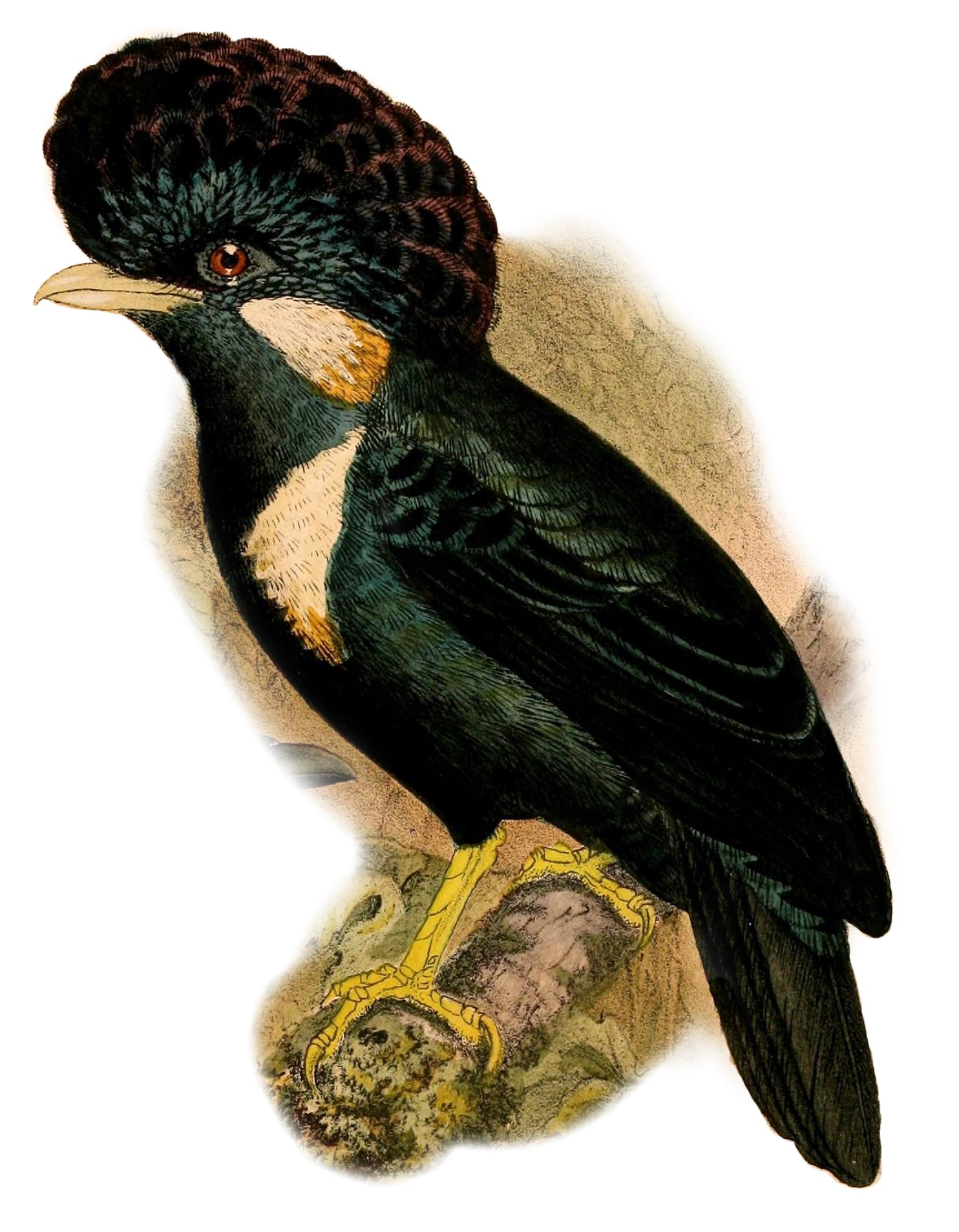 « Basilornis galeatus » = Basilornis galeatus (Helmeted Myna)